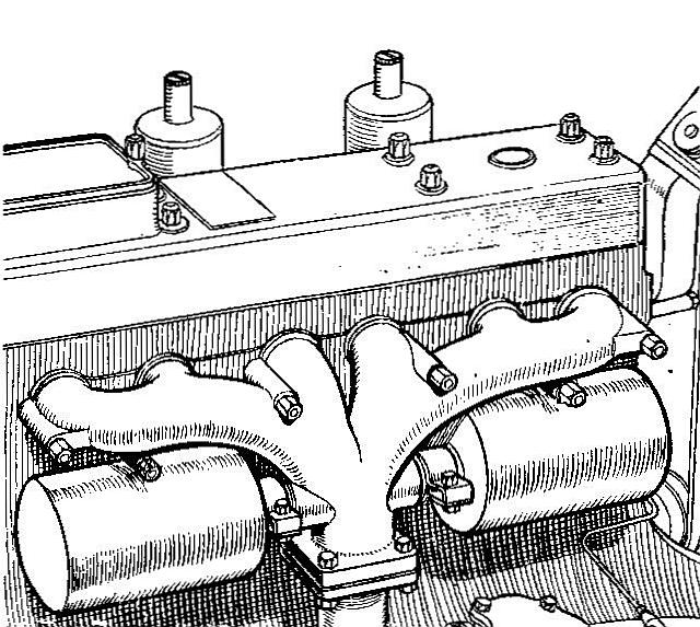 Helmholtz resonator exhaust manifold (Autocar Handbook, 13th ed, 1935).jpg